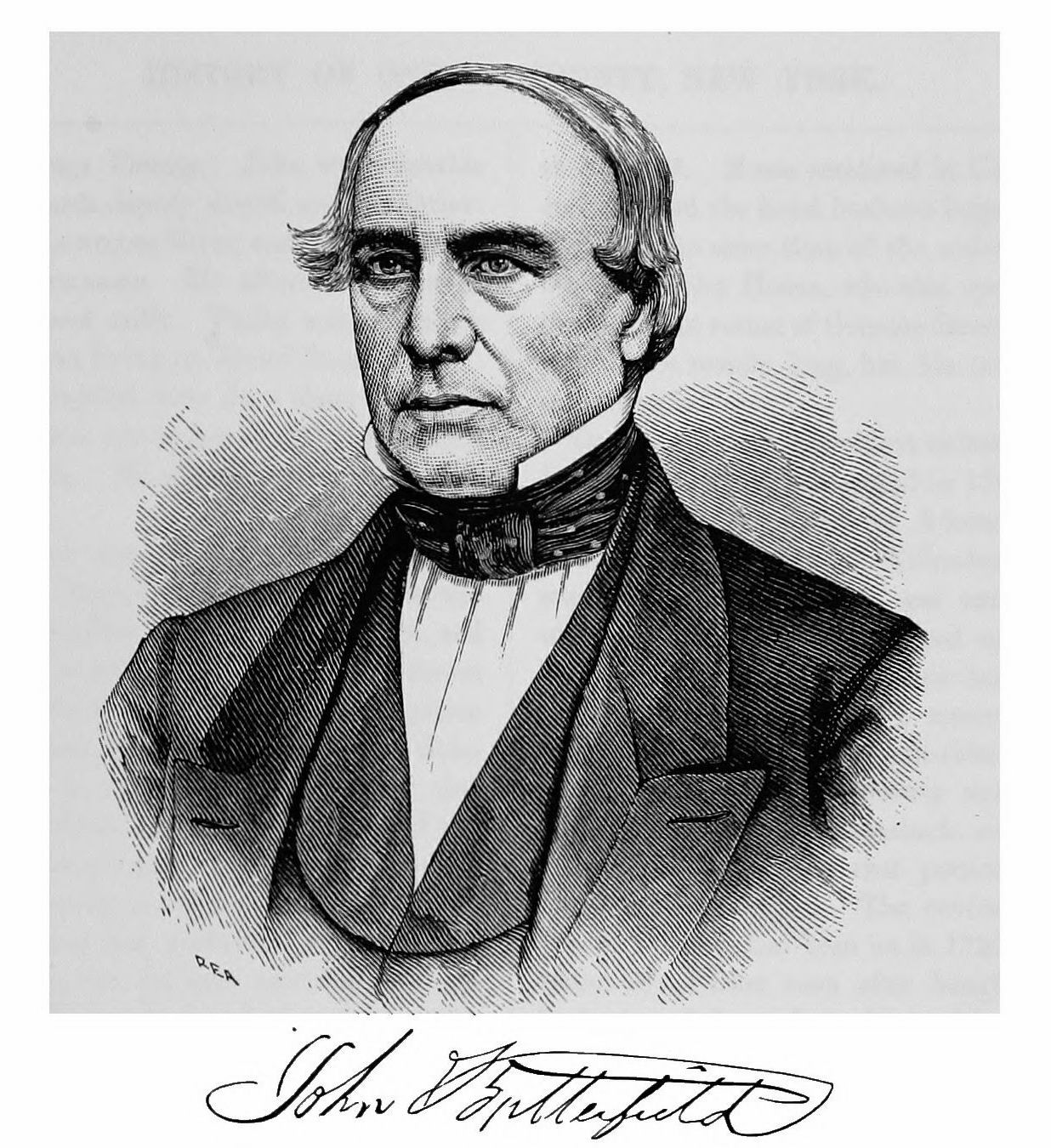 Drawing of John Butterfield accompanying an 1878 biography.